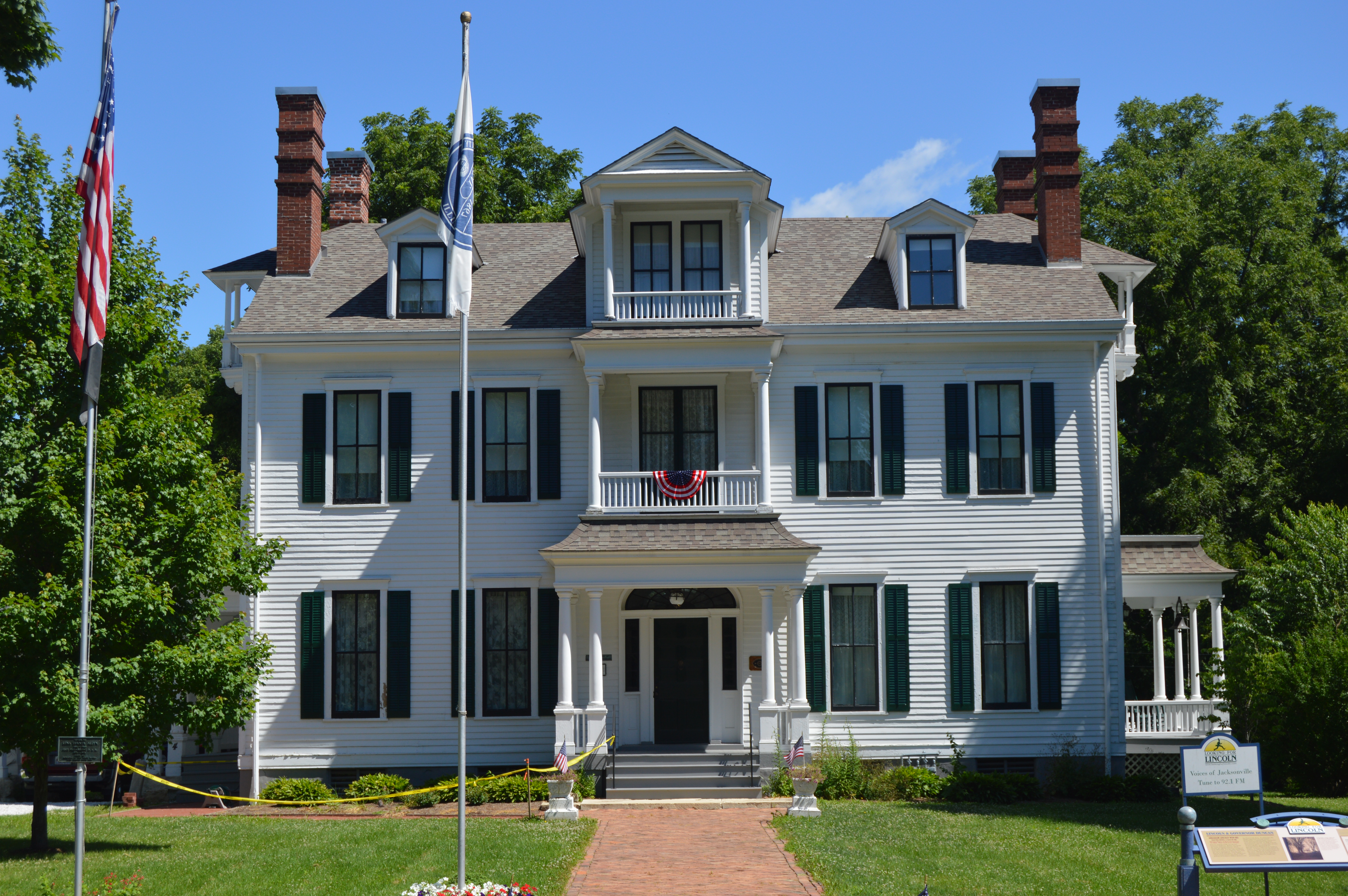 Front of the Joseph Duncan House, located in Duncan Park in Jacksonville, Illinois, United States. Built in 1833, it is listed on the National Register of Historic Places.